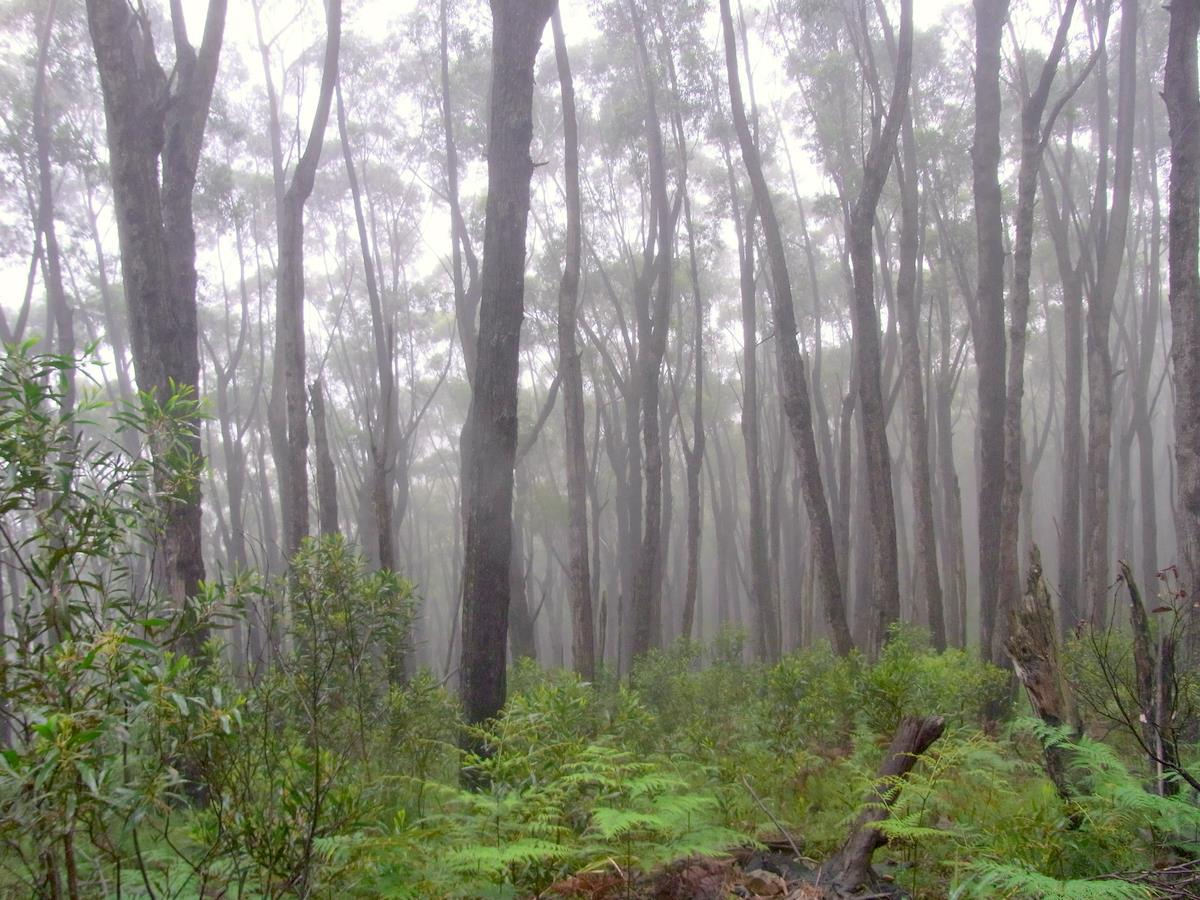 Eucalyptus sieberi at Deua National Park, Australia